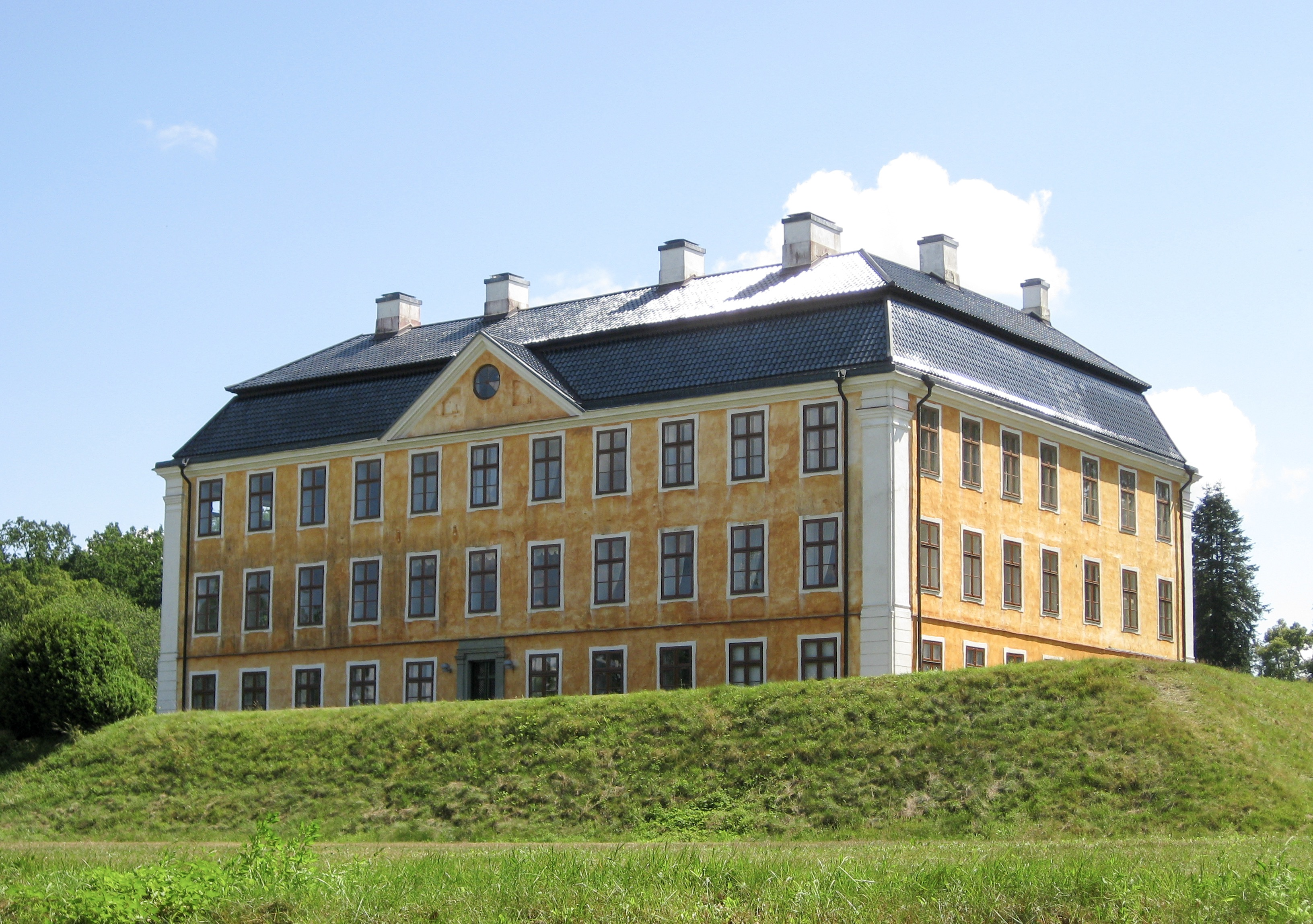 Christinehof castle in Skåne, Sweden